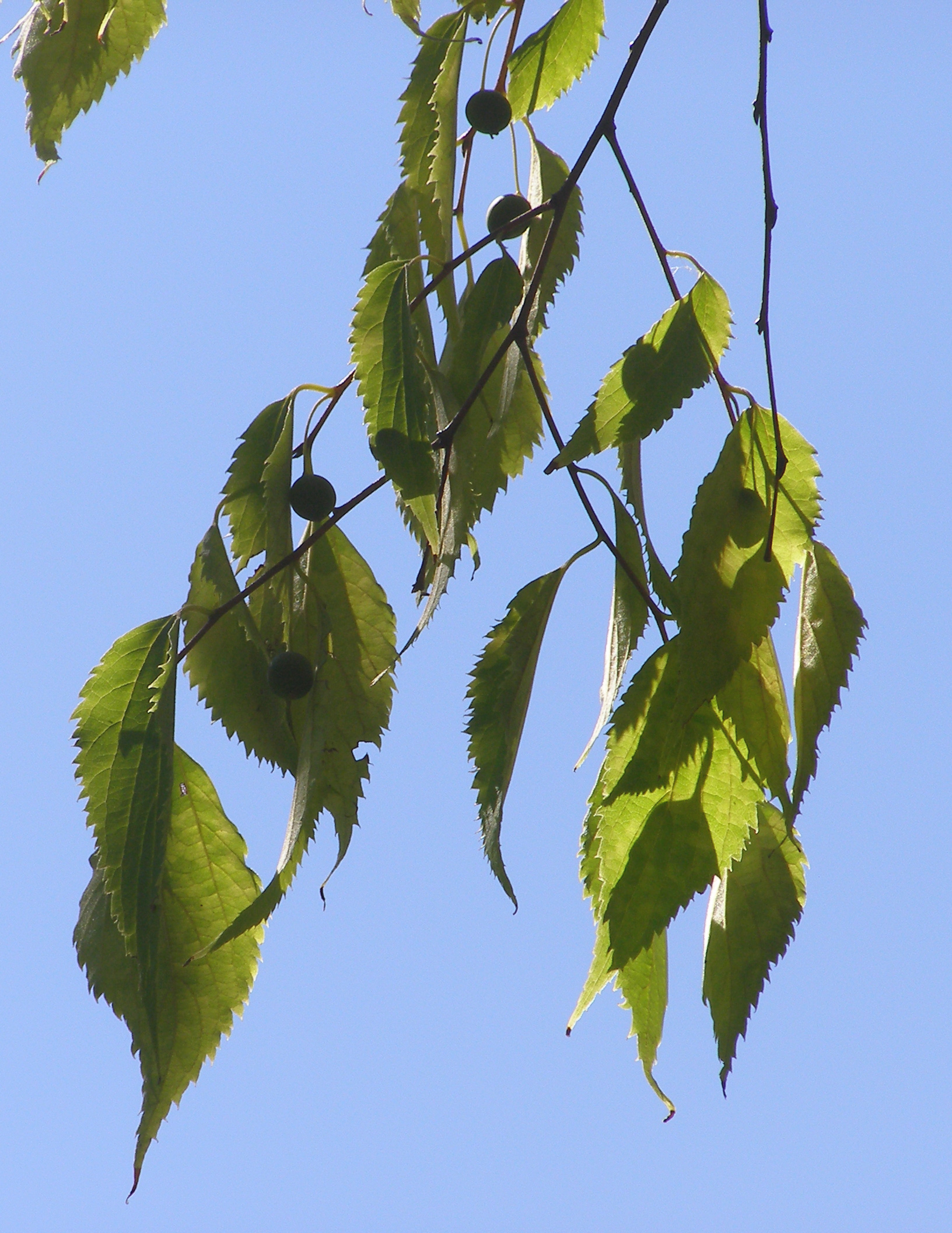 Nettle Tree in Portugal